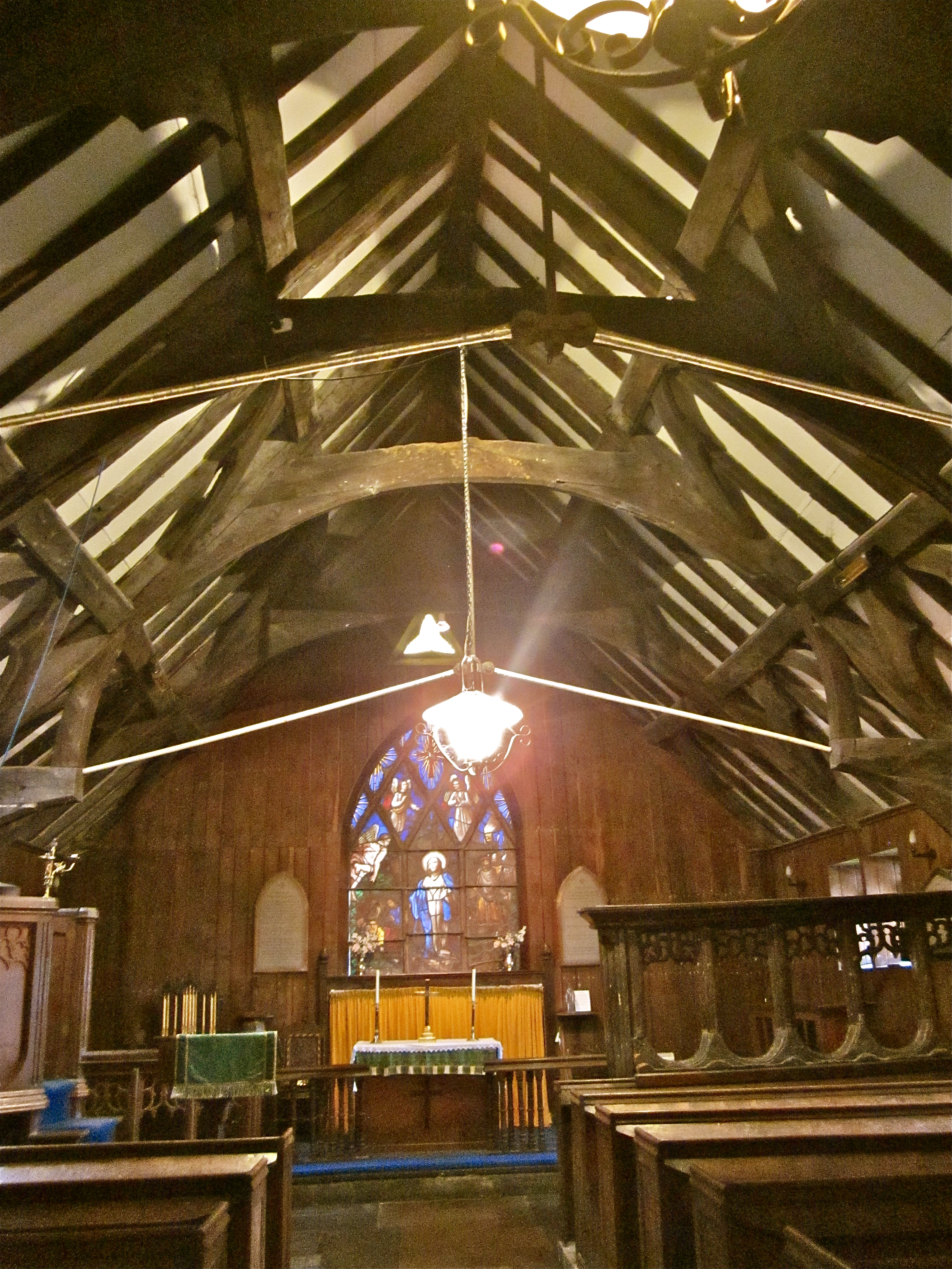 The timber framed church at Trelystan, Montgomeryshire. Interior of church.